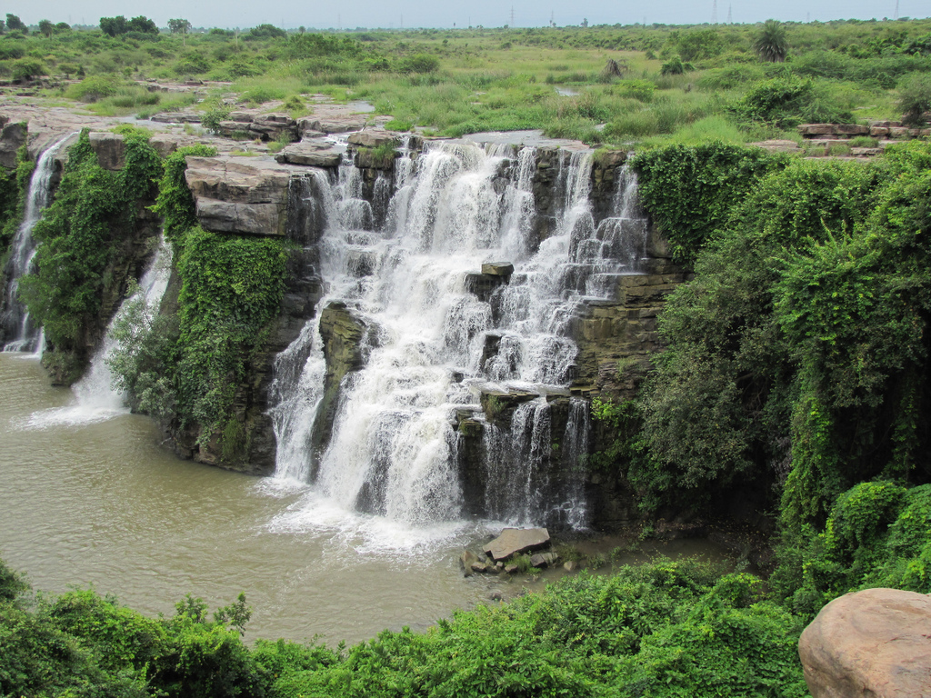 Ettipothala Water Falls in Andhra Pradesh